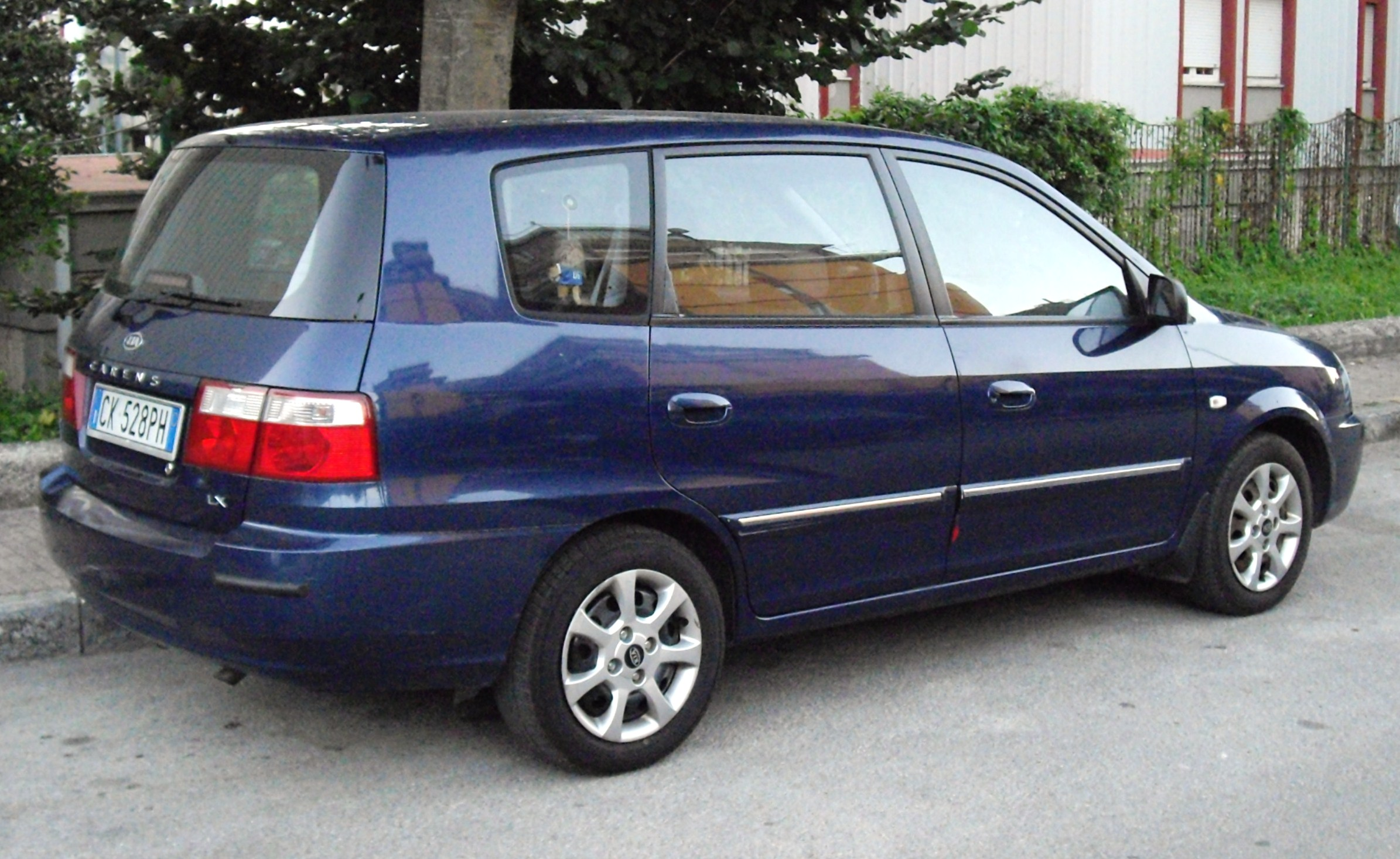 Kia Carens first generation facelift in Avellino